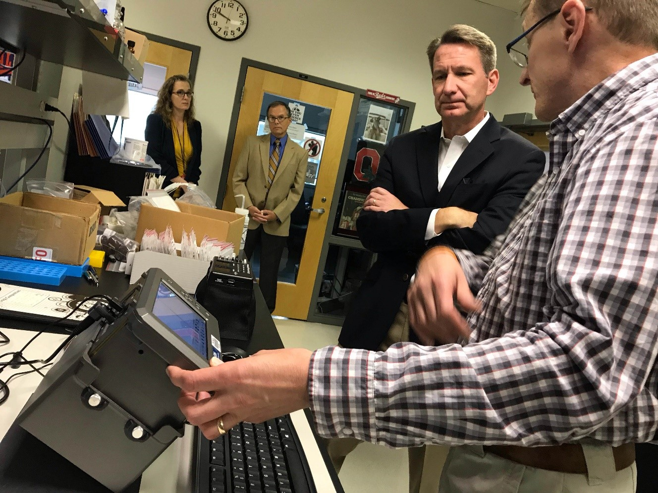 Acting FDA Commissioner Ned Sharpless, M.D. takes a tour of the FDA’s Forensic Chemistry Center. The Center serves as the FDA’s premier national laboratory and is playing a critical role in fact-gathering and analysis for the ongoing incidents of lung illnesses following vaping product use.